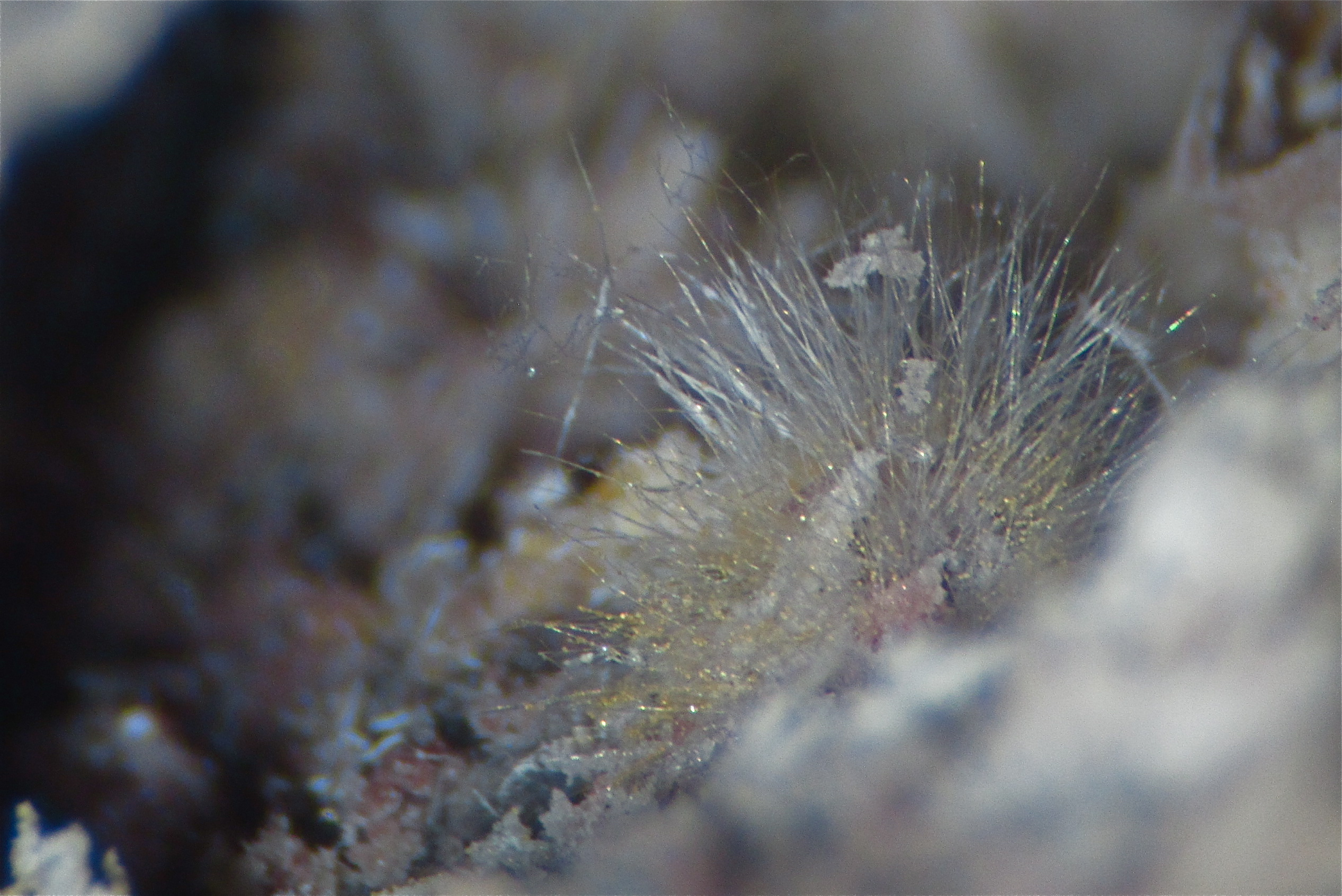 Mullite Field of view: 5 mm Locality: Hendersons Quarry, Mount Ngongotaha, Rotorua District, Bay of Plenty Region (Te Moana-a-Toi), North Island, New Zealand Original description: Fibrous radiating mullite spray, with yellow ?